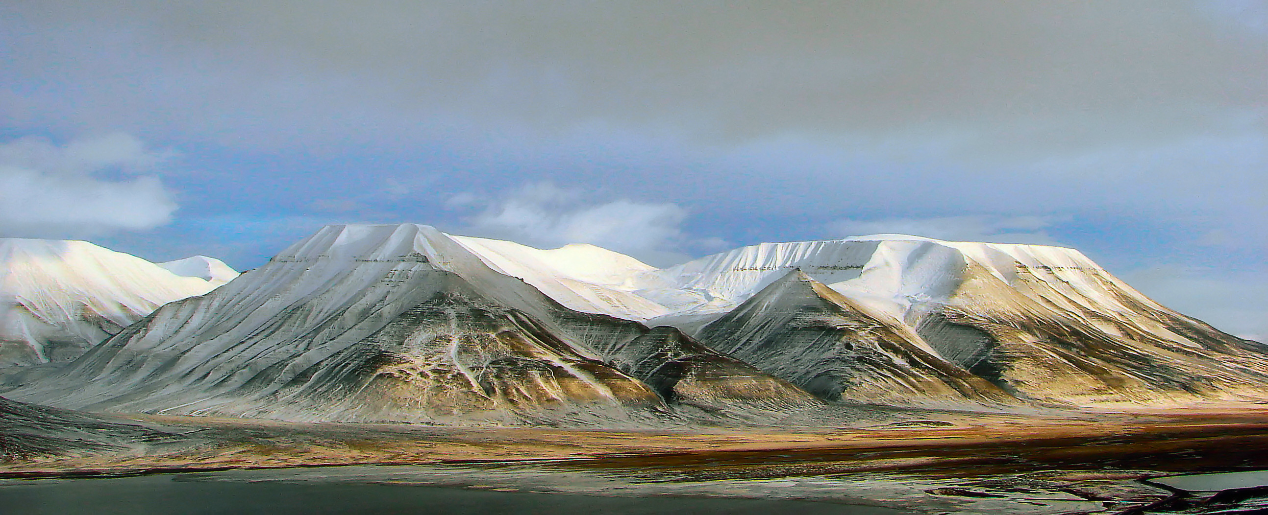 A view of Operafjellet north-east of Longyearbyen, Svalbard, as seen from Platåfjellet.